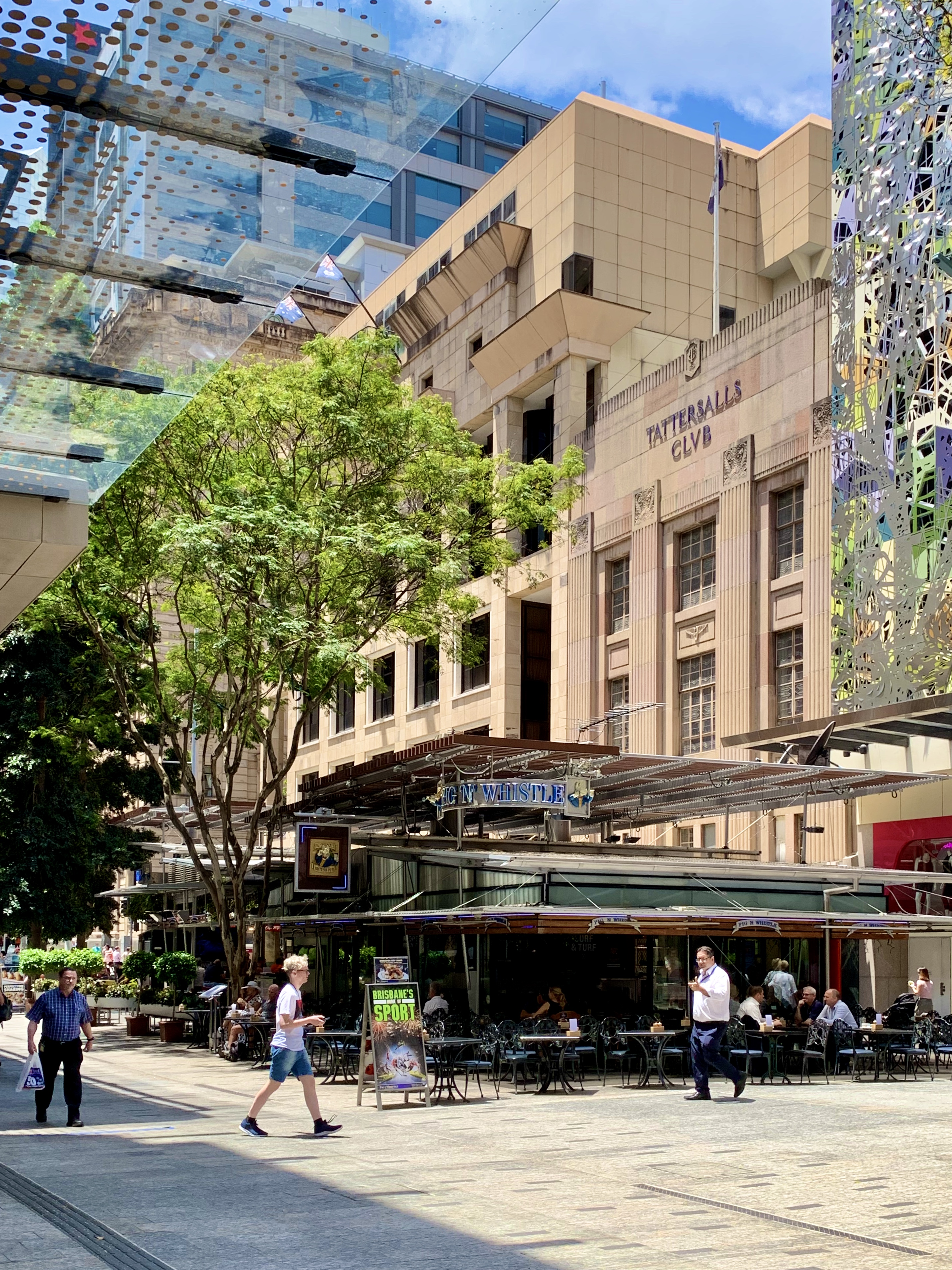 Tattersalls Club, Queen Street Mall facade, Brisbane